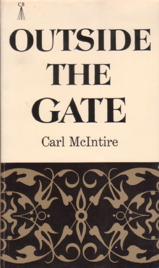 Cover of Carl McIntire: Outside the Gate (1967)